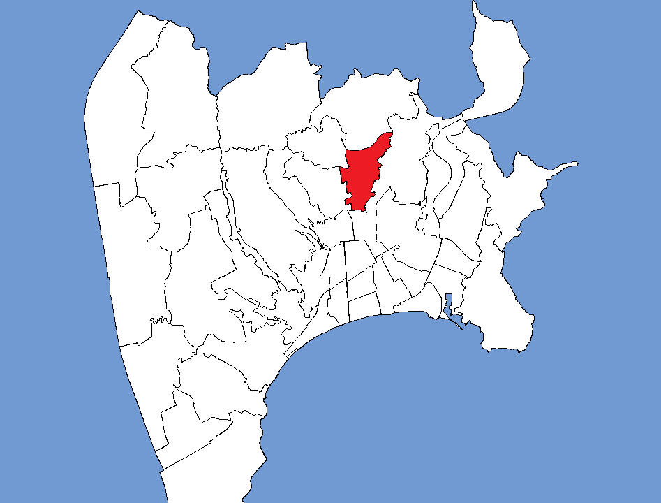 Location of the neighbourhood Saint Maurice in Nice